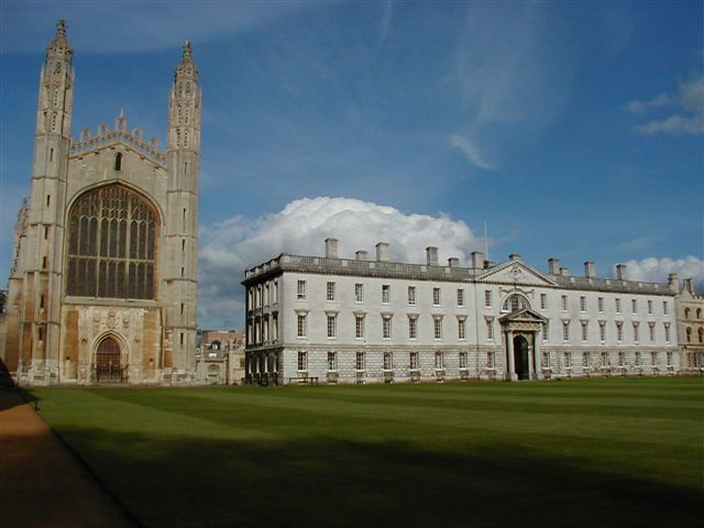 loaded on PT:Wikipedia by usuário:Joaotg